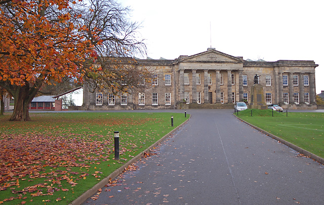 Dollar Academy The main frontage of boarding school, founded in 1818 by Captain John McNabb. It is the longest established co-educational school in Britain, serving some 1,300 students, both day pupils and boarders.